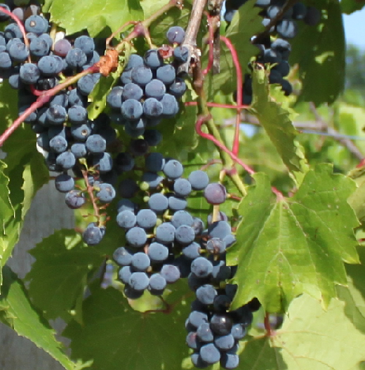 Cropped version of File:Frontenac Grapes on the Vine Flying Otter Vinyard and Winery Adrian Michigan.JPG to focus on the grapes. I tried to upload this with the Derivative Fx tool but toolserver seems to be down